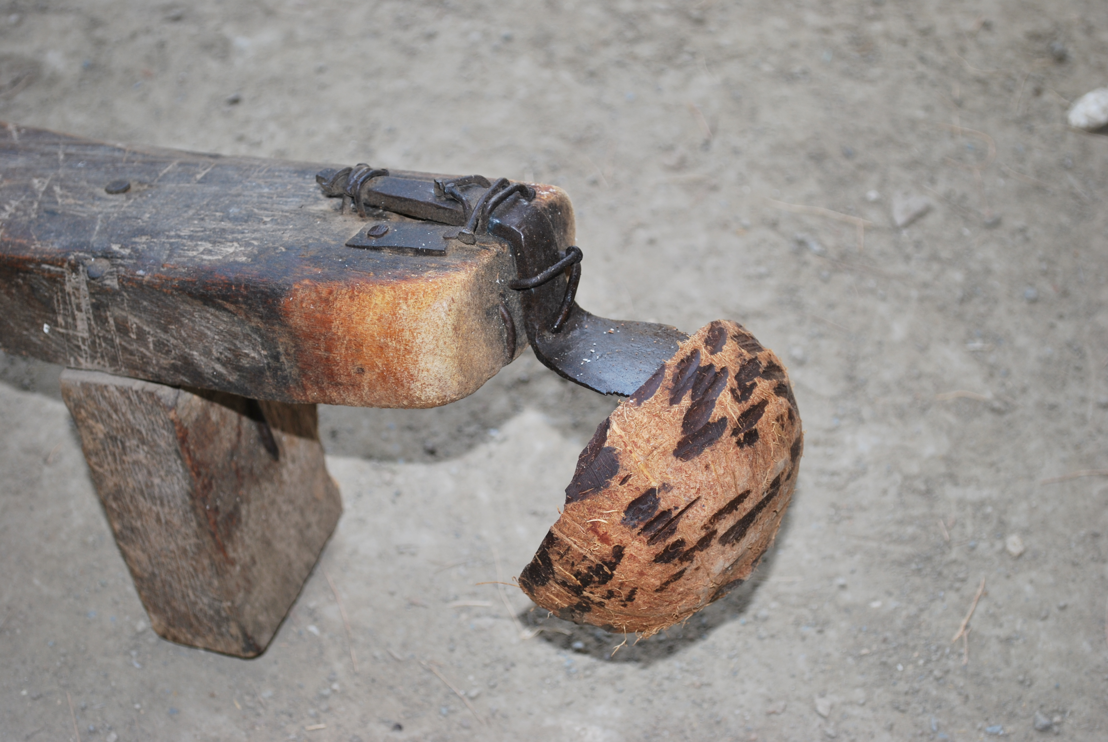 Coconut scraper in Laclo, East Timor Sunda: Kukuran sederhana